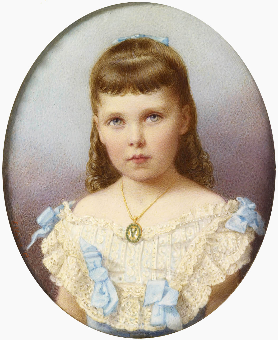 Watercolour on ivory laid on card of Princess Victoria Melita of Edinburgh and Saxe-Coburg and Gotha Princess Victoria Melita (‘Ducky’) is shown aged four and a half, wearing a pale-blue dress trimmed with lace and blue ribbons, and a pendant with the interlaced initials VR around her neck on a gold chain. Commissioned by Queen Victoria in 1881